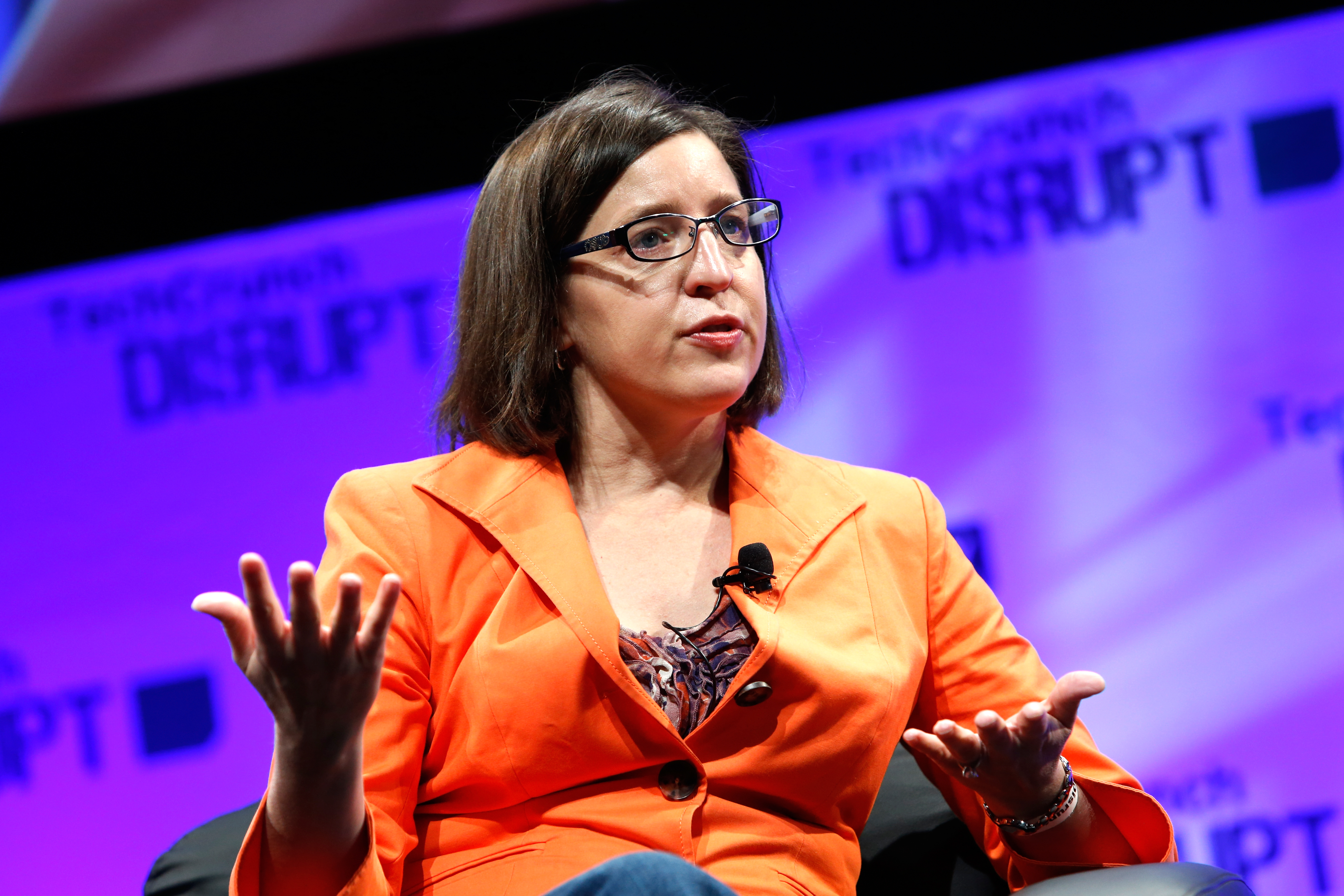 Susan Athey speaks at TechCrunch Disrupt NY 2014 - Day 1 on May 5, 2014 in New York City.